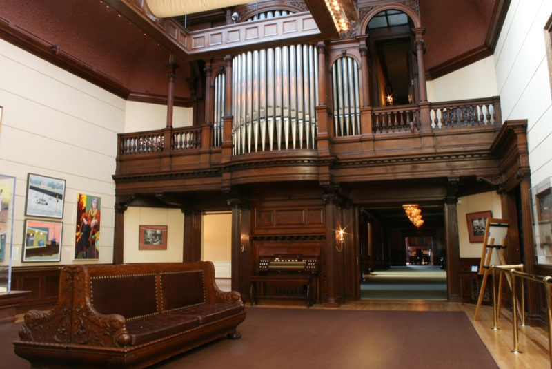 A mechanical action tracker pipe organ, designed by the George Hutchings Company of Boston. The organ contains 1006 pipes and was originally hand-pumped with a bellows in the basement. The organ still works today and can be heard most Saturdays, when there are guest organists providing demonstrations for visitors on tour or visiting the art gallery. Photo of the original pipe organ, within the art gallery of the James J. Hill House. Photography by: Corrie Potter Taken February 19, 2008. Collection of The Minnesota Historical Society